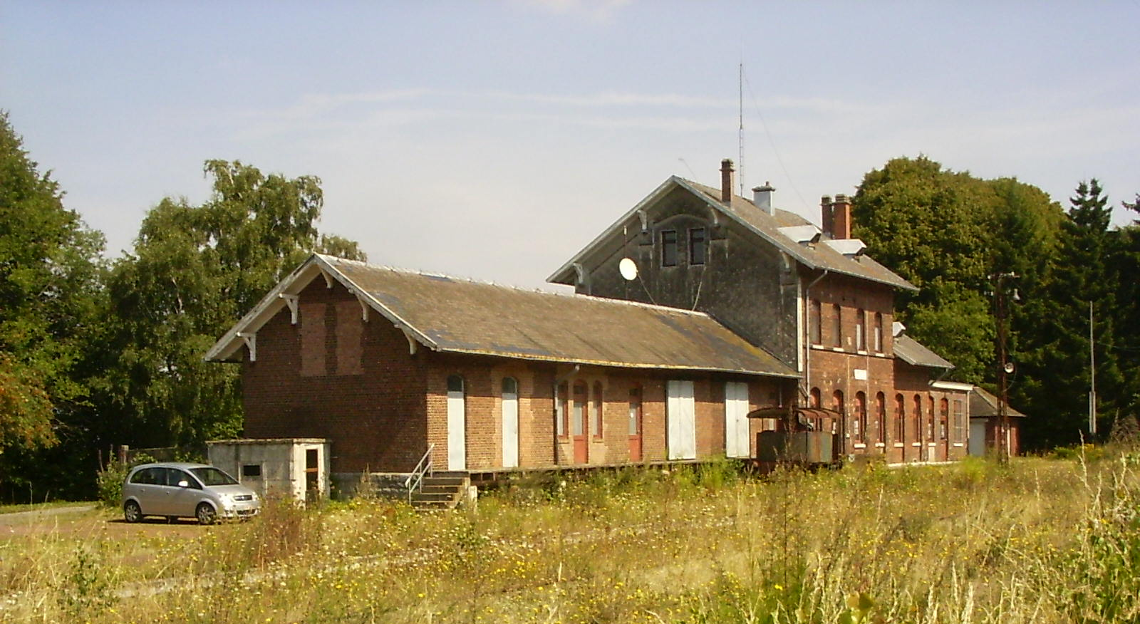 Raeren train station main building